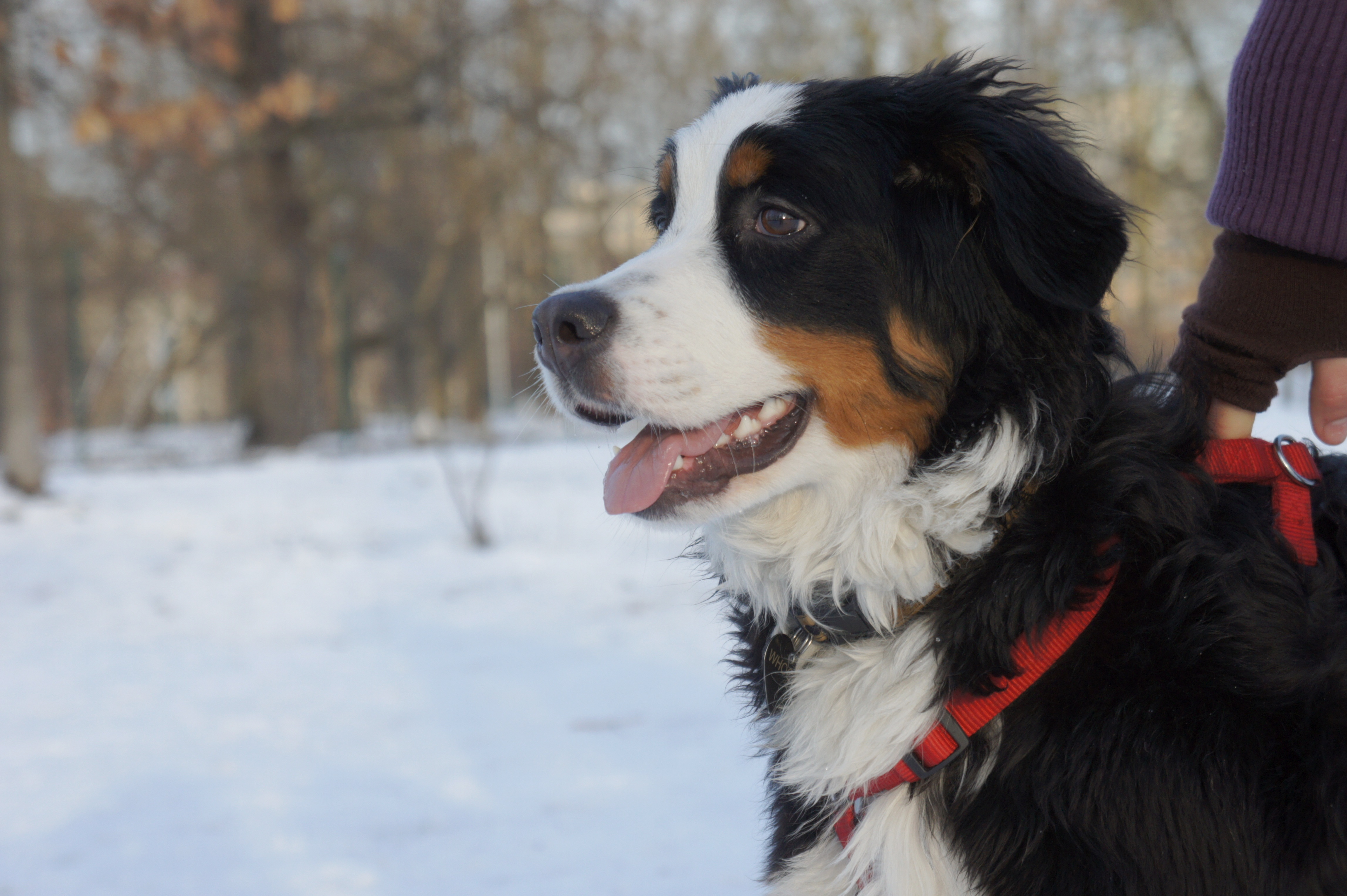 Whoopie - a seven month old berneese mountain pup.